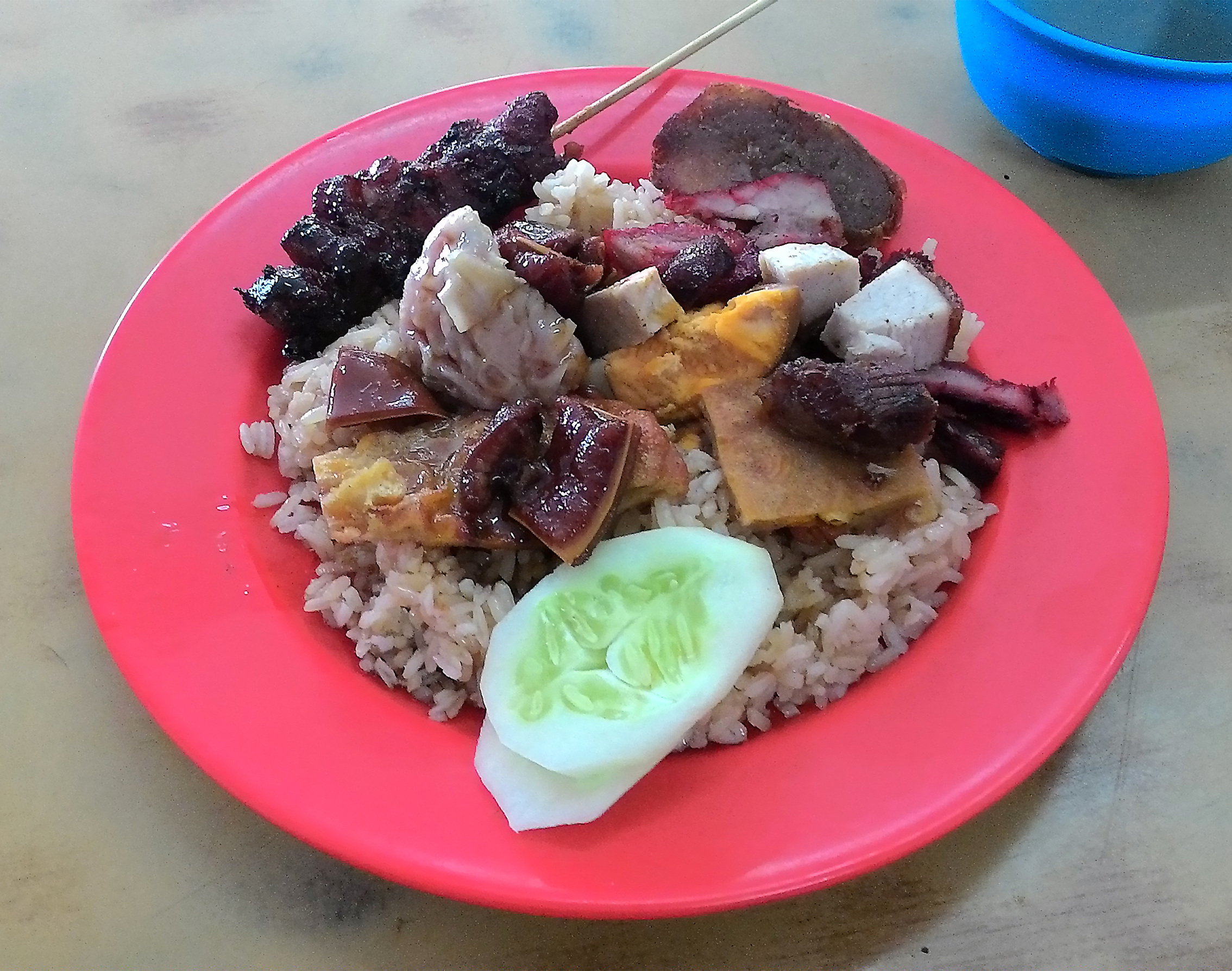 Nasi Campur Tionghoa, Chinese Indonesian dish served in Kenanga Restaurant, Jalan Kramat Raya, Senen, Central Jakarta, Indonesia. It consist of rice surrounded with Chinese barbecues, such as charsiu and samcan (roasted pork belly), pork satay, pork dumplings, pork ear, egg and cucumber with clear broth soup with salted vegetables.